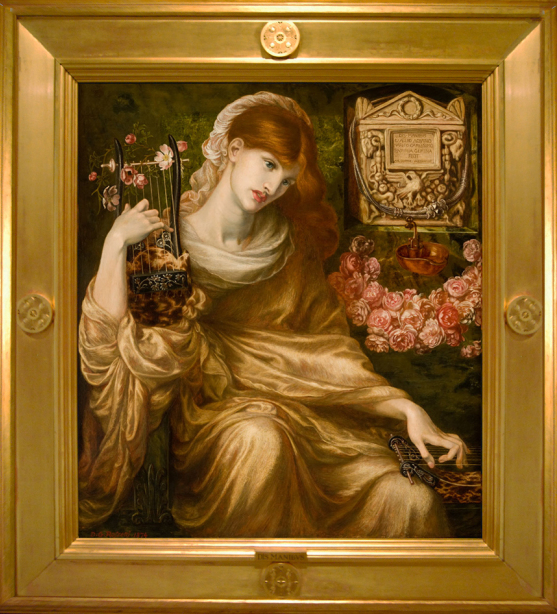 Dîs Manibus with frame.